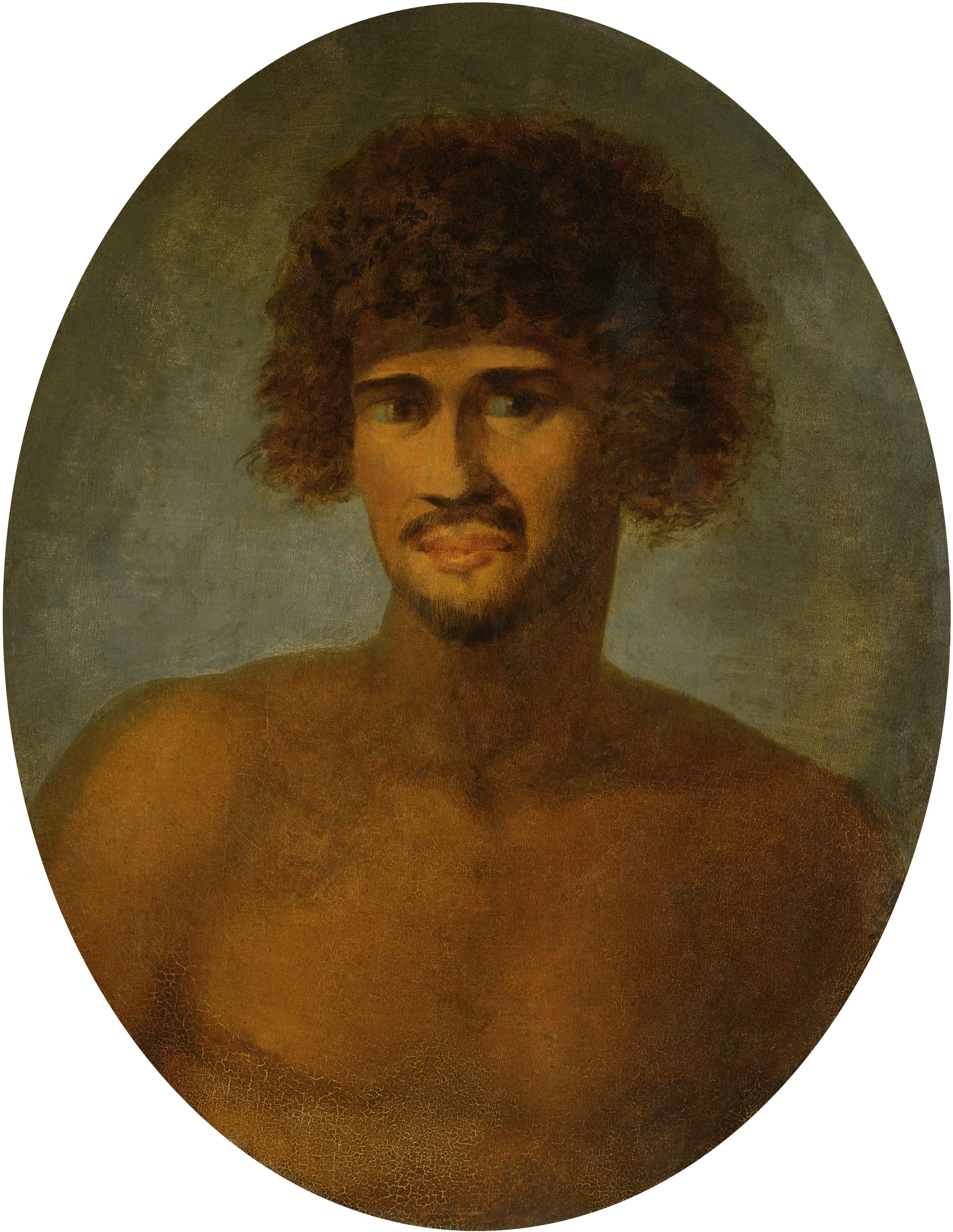 Head and shoulders portrait of a young Tahitian male.